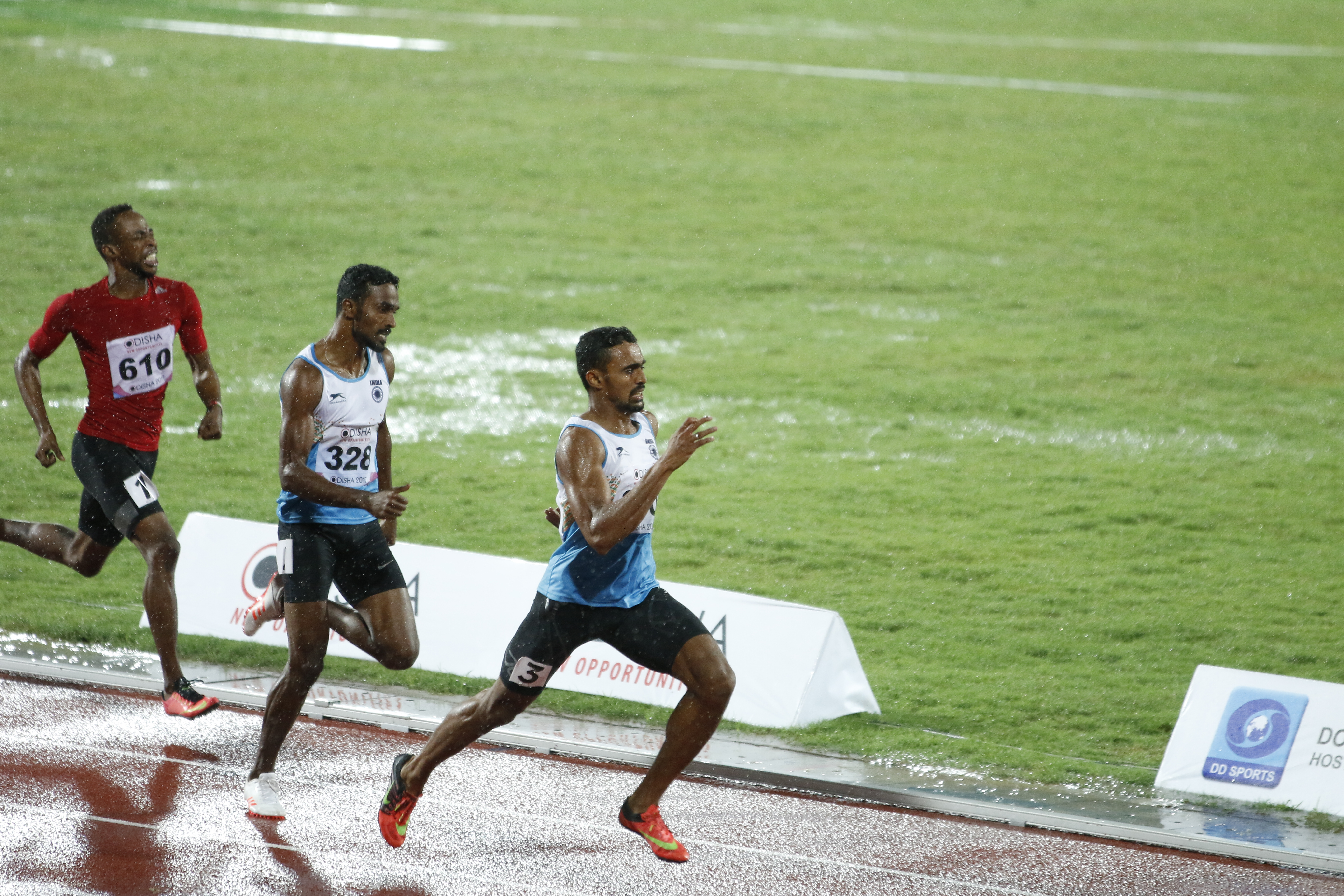 Athletes during 22nd Asian Athletics Championships in Bhubaneswar.